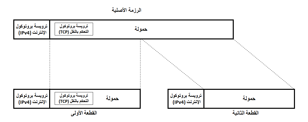 Transport Control Protocol (TCP) header when an IP packet is being fragmented, the header occupy a place only in the first fragment, this causes a potential security vulnerability to launch an IP fragmentation attack.